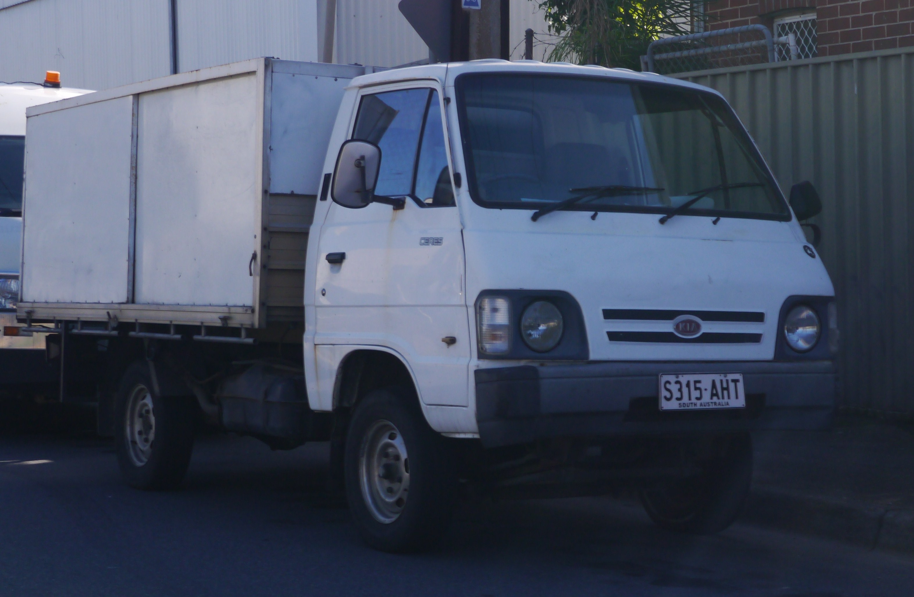 These were the first ever Kia badged vehicles to arrive in Australia. At the time, they were sold along side the Asia Rocsta and sold through Asia Motors dealerships, which of course were a sub brand of Kia Motors. These are very rare here and sold in tiny numbers when new.